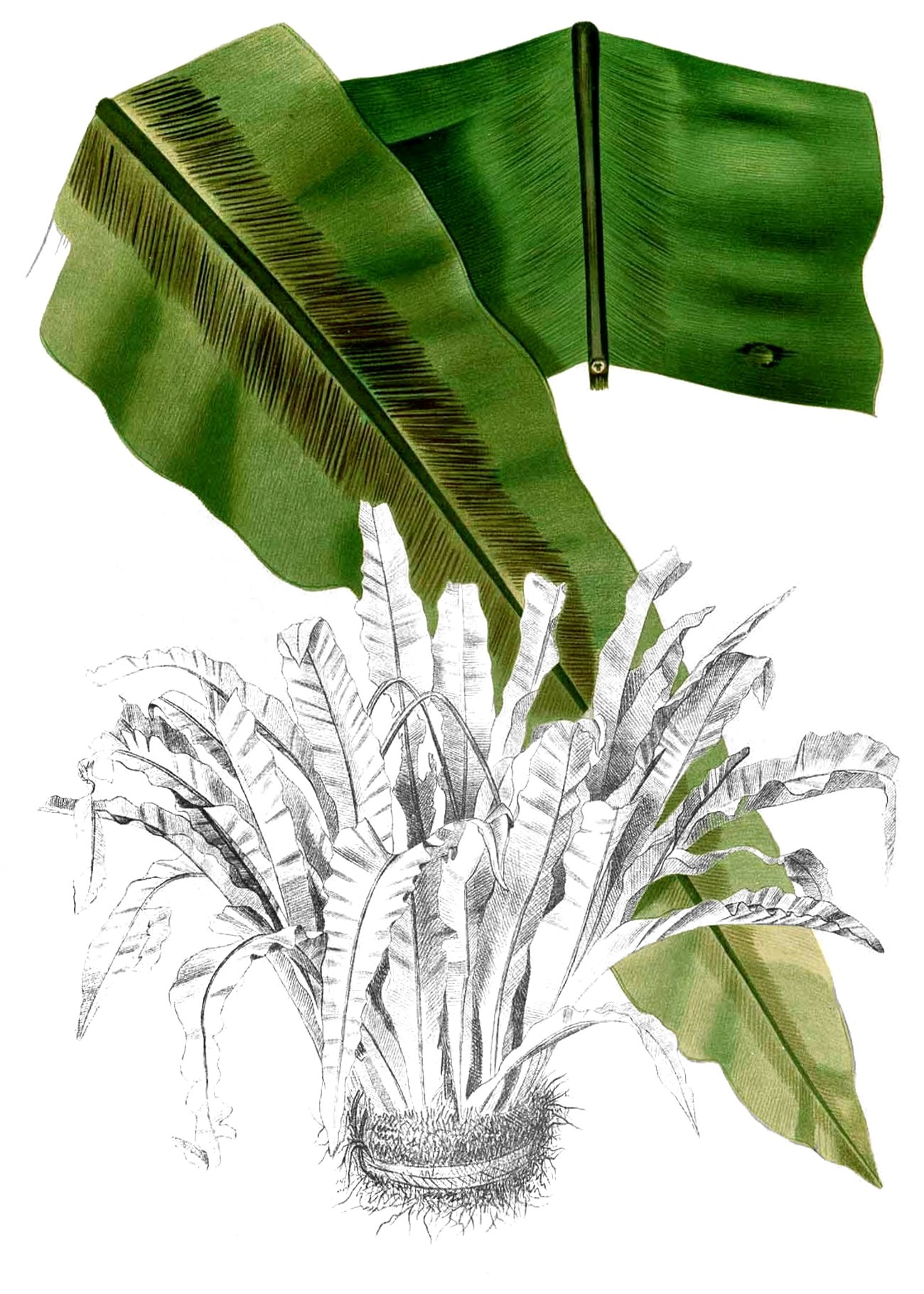 Plate from book